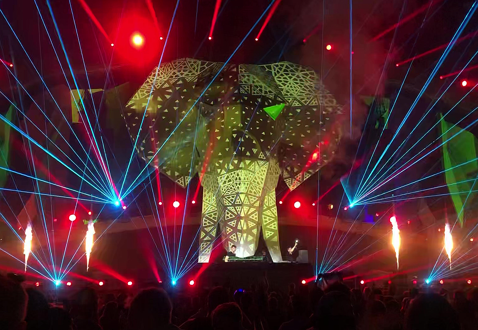 Terminal Stage at Airbeat One Festival during Mike Williams performance.